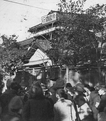 Shiina-Machi branch of the Teikoku Bank